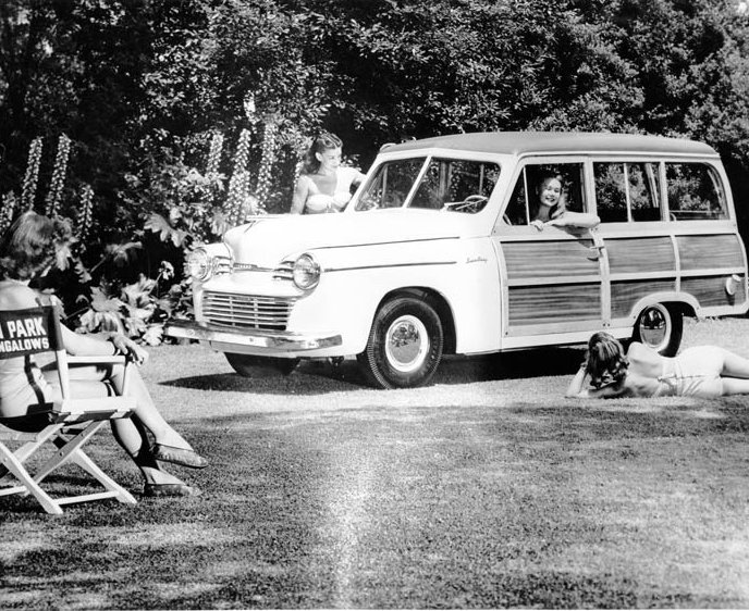 Keller Promo picture taken at a pool